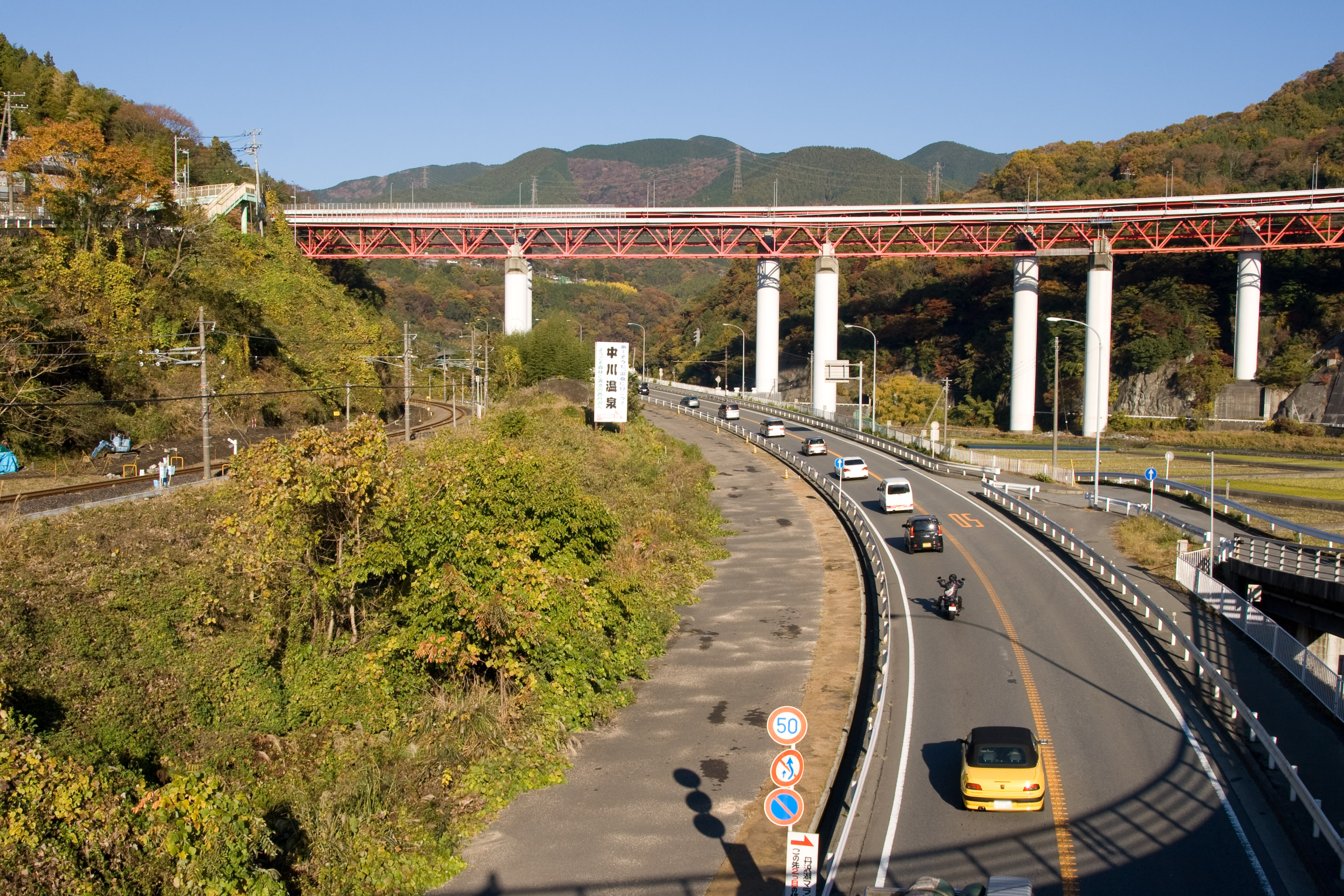 Sakawa riv. Bridge of Tomei Expwy in Yamakita Town, Kanagawa Pref., Japan.